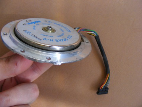 Free Photos – Stepper Motor – Nidec More photos and details about possible copyright or licensing restrictions here: Full Size Up to 3072 x 2304 pixels Information Regarding Copyright